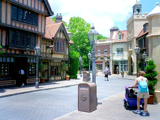 Digital photo taken by Marc Averette